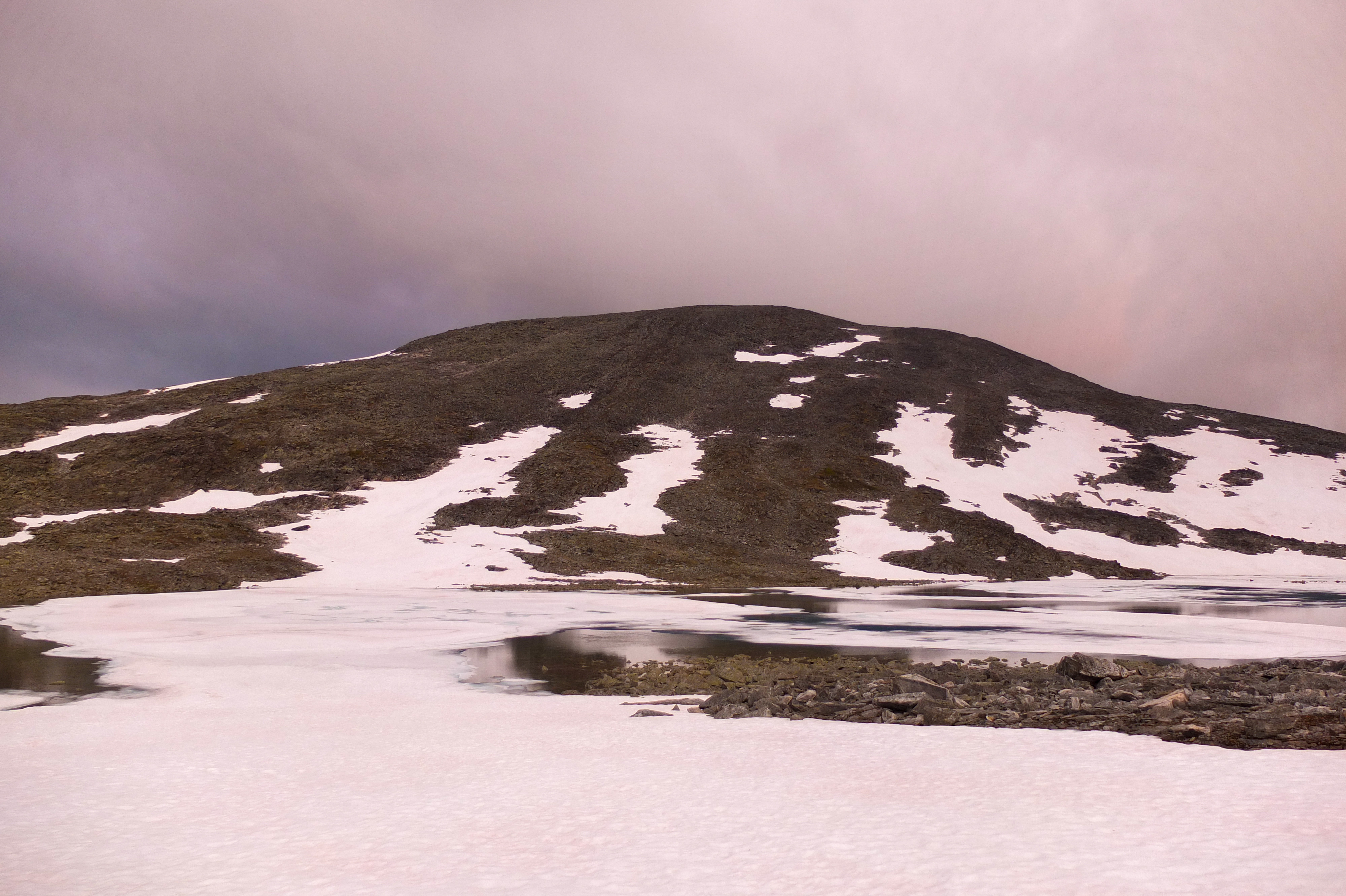 The mountain Salhøa in the evening, seen from north